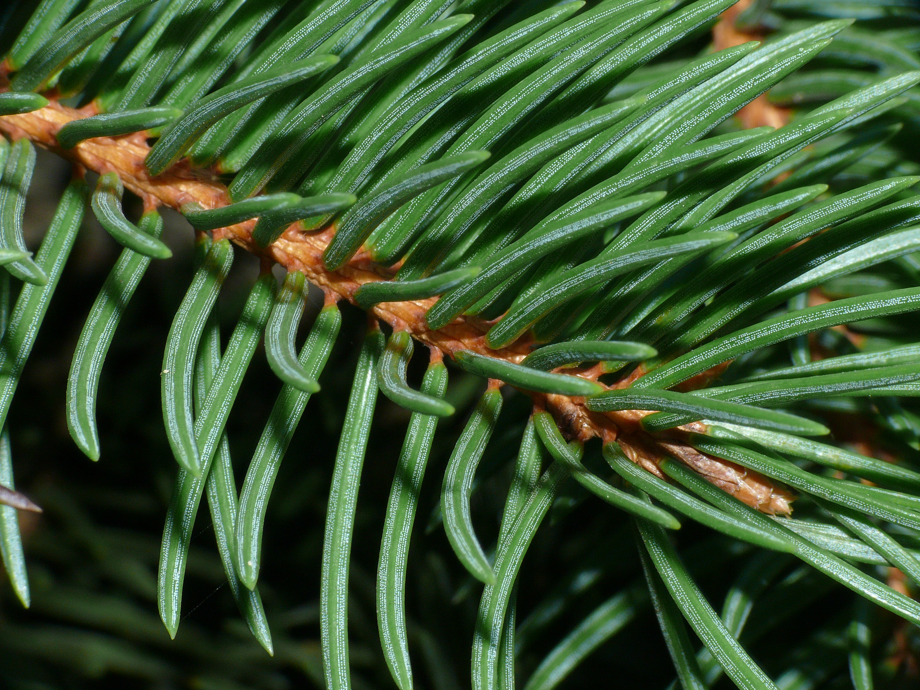 Norway Spruce Picea abies needle stomata. Taken in Cincinnati, OH.